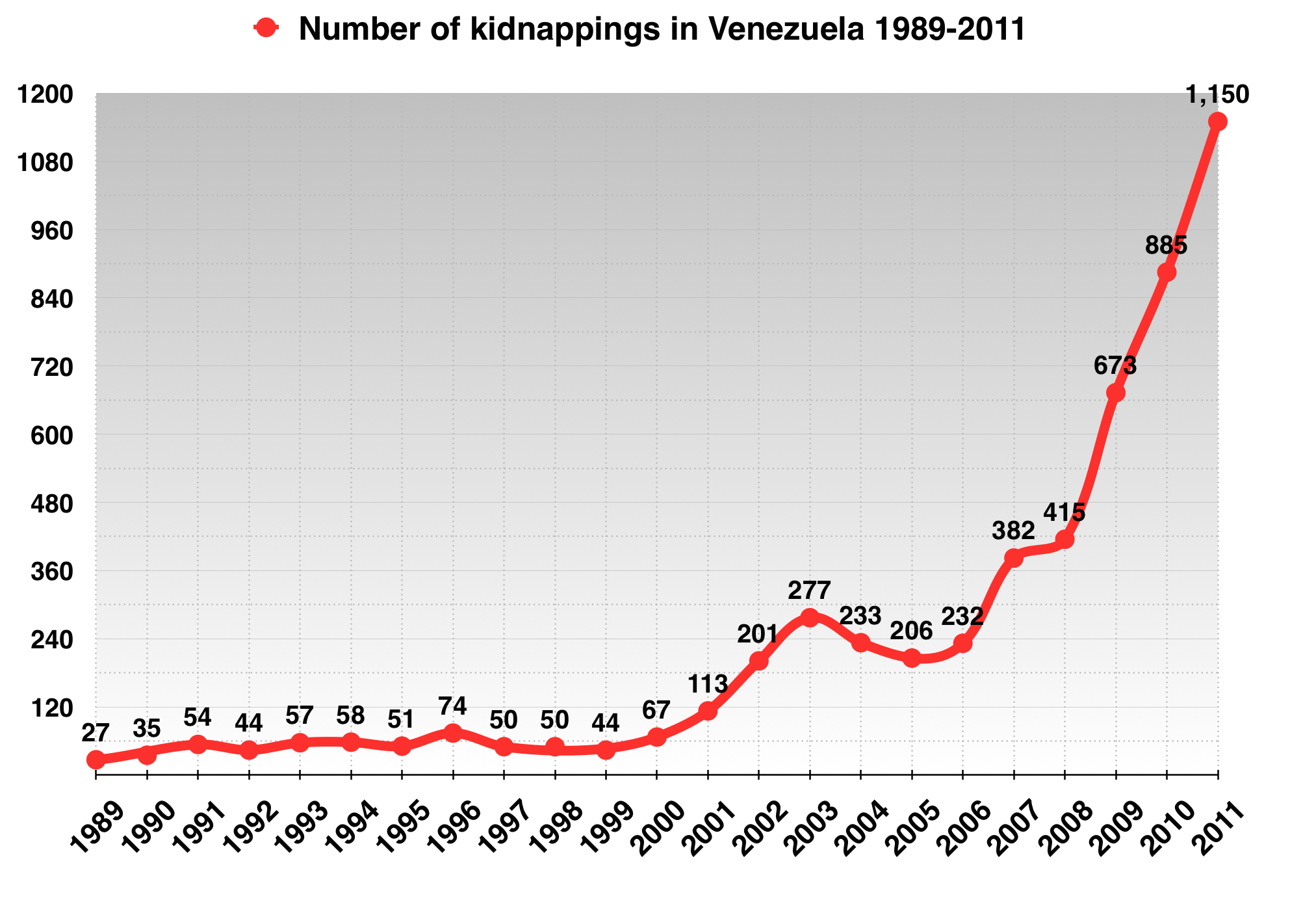 Kidnappings in Venezuela for 1989 and beyond.